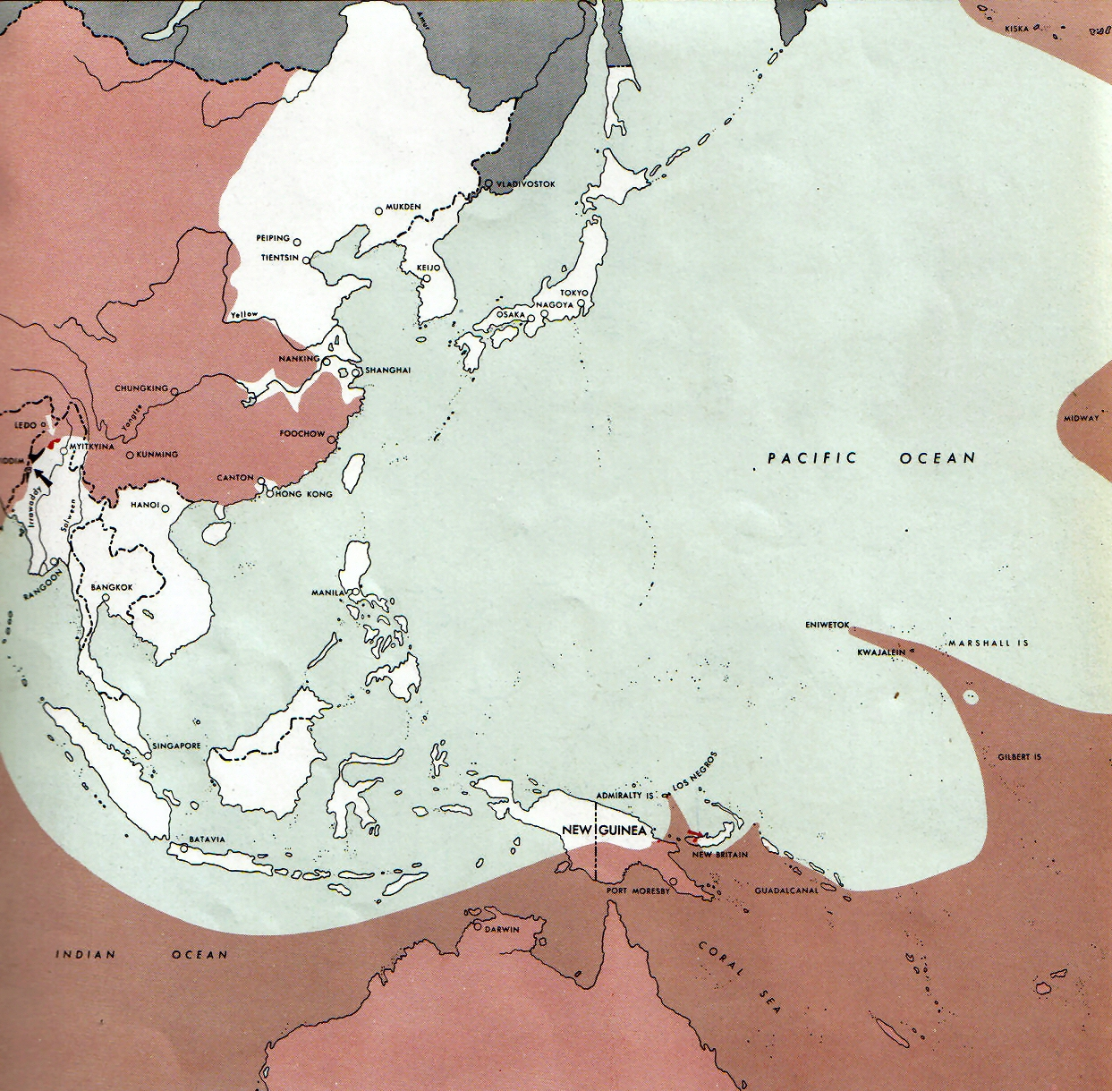 Map of the front against Japan as of 15 Mar 1944: This map is taken from the source "Atlas of the World Battle Fronts in Semimonthly Phases to August 15th 1945: Supplement to The Biennial report of The Chief of Staff of the United States Army July 1, 1943 to June 30 1945 To the Secretary of War". (See Cover, Forward and Map details)